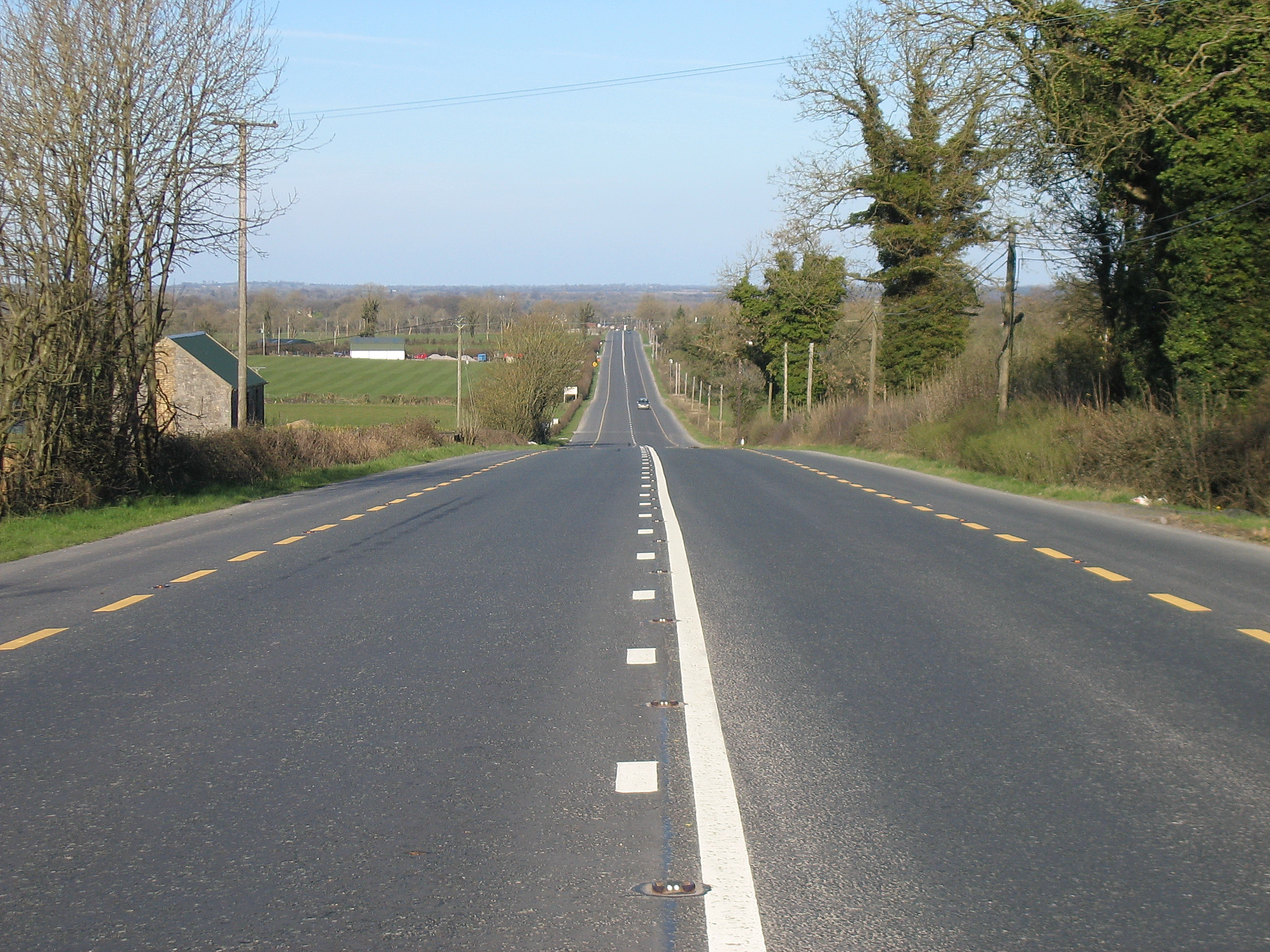 The former N6 (now R446) between Tyrrellspass and Rochefortsbridge, County Westmeath